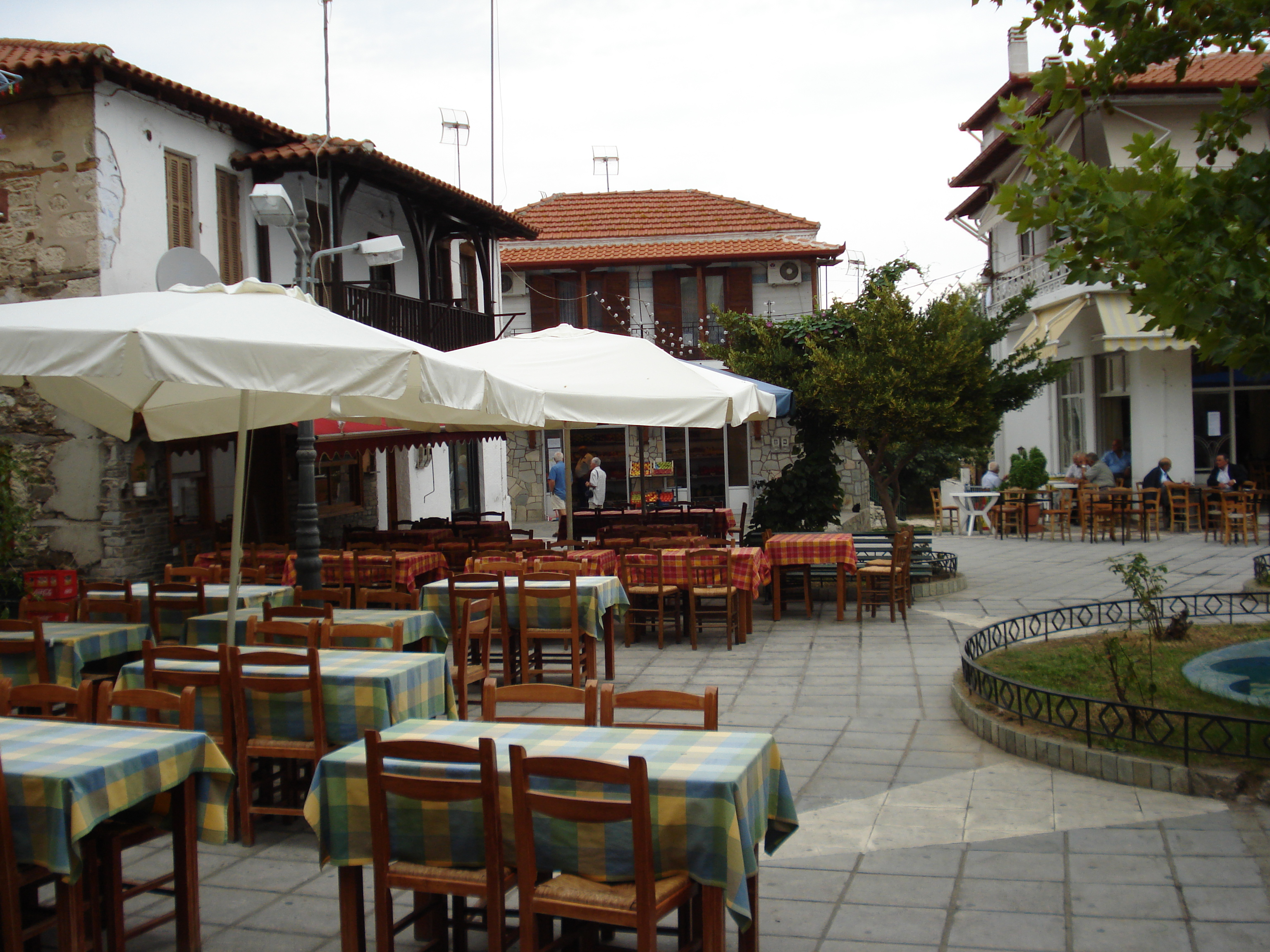 Centre of Agios Nikolaos, Chalkidiki